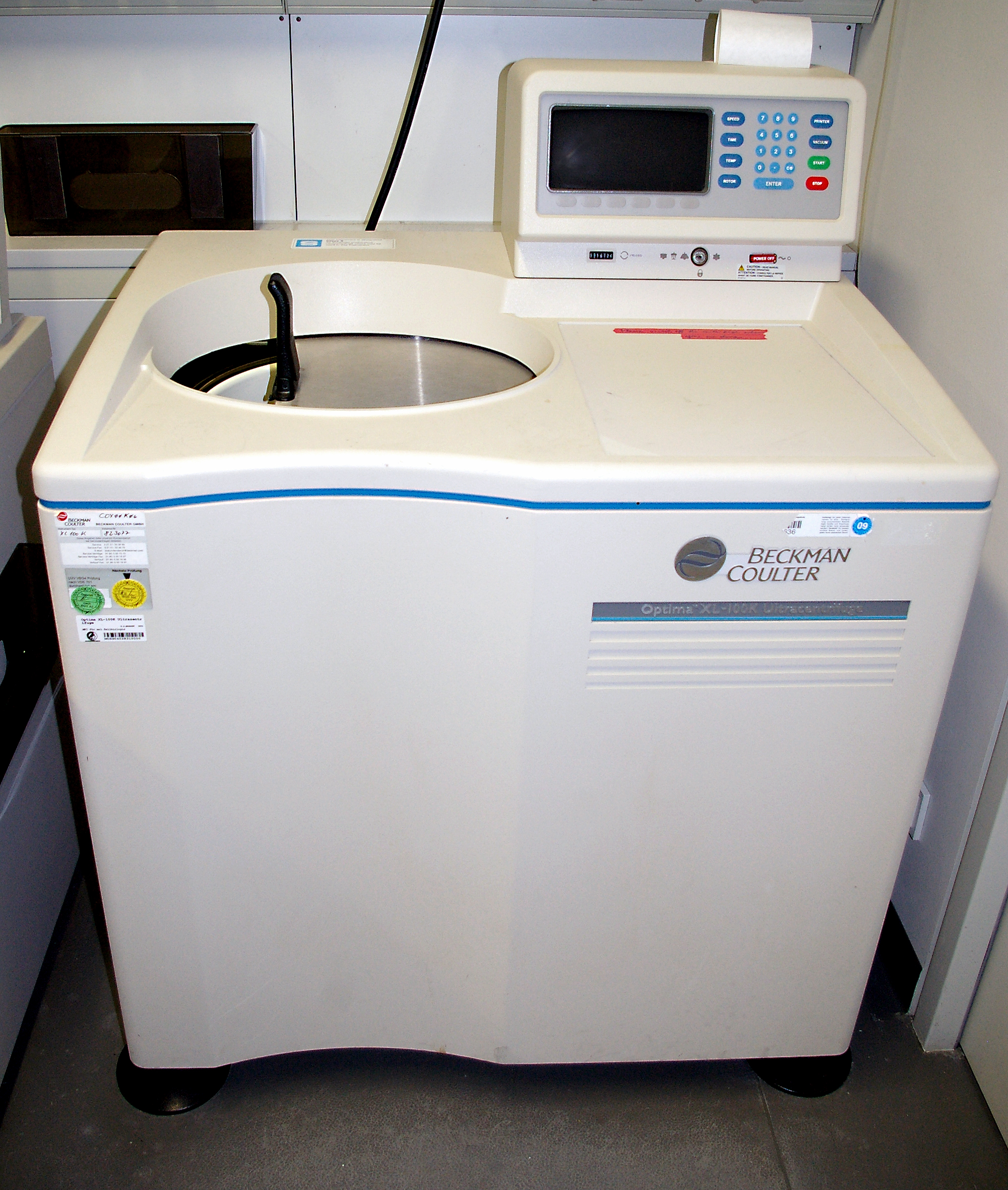 Beckman-Coulter ultracentrifuge, XL-100K